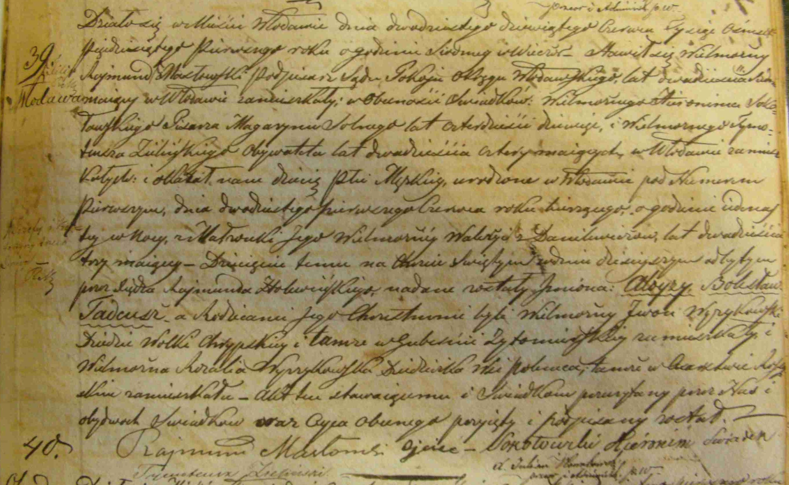 It's my own faithful copy of Boleslaw Maslowski (1851-1928), chemist, birth certificate